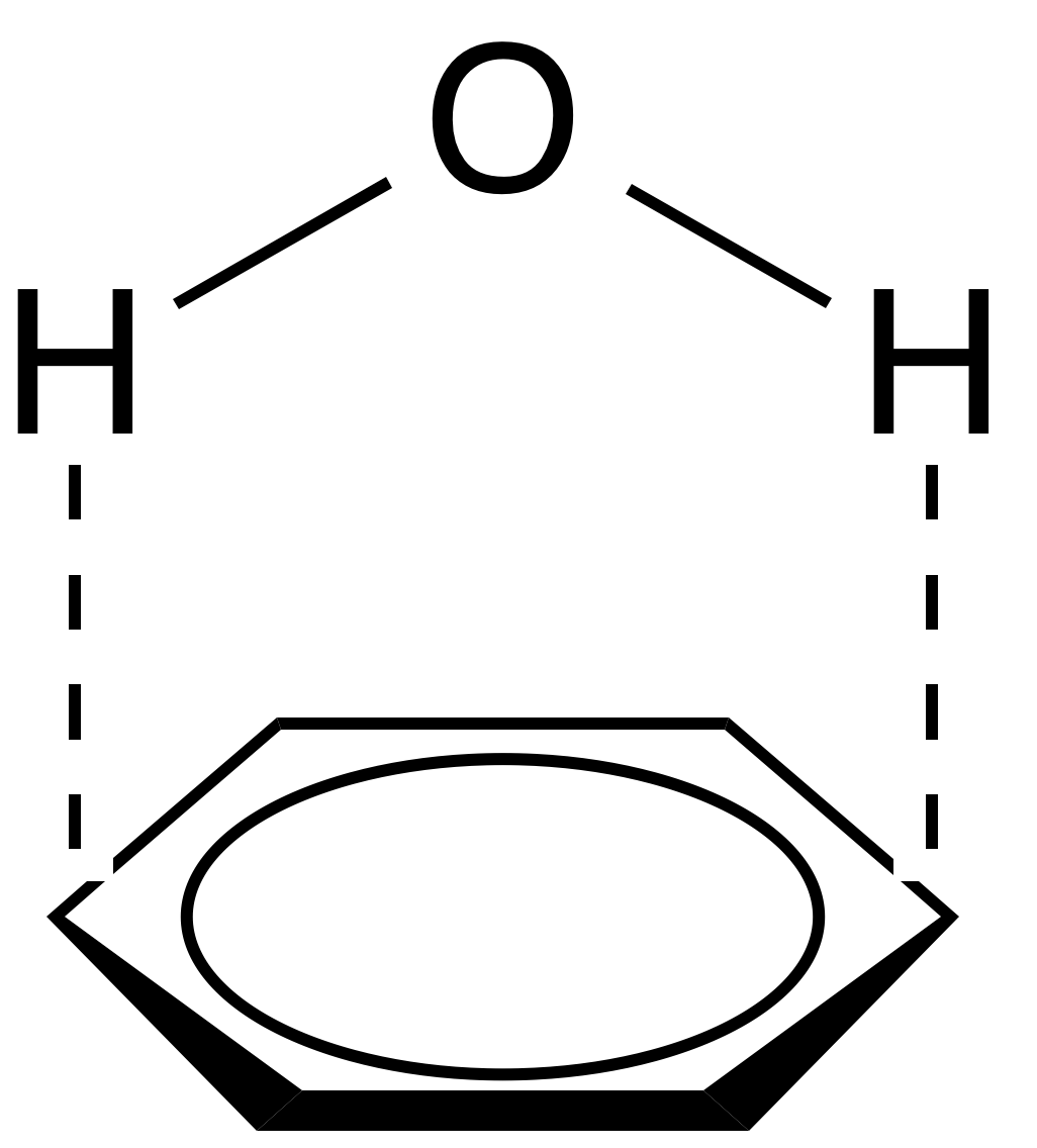 The hydrogens of a water molecule interacting with the π-cloud of a benzene ring.